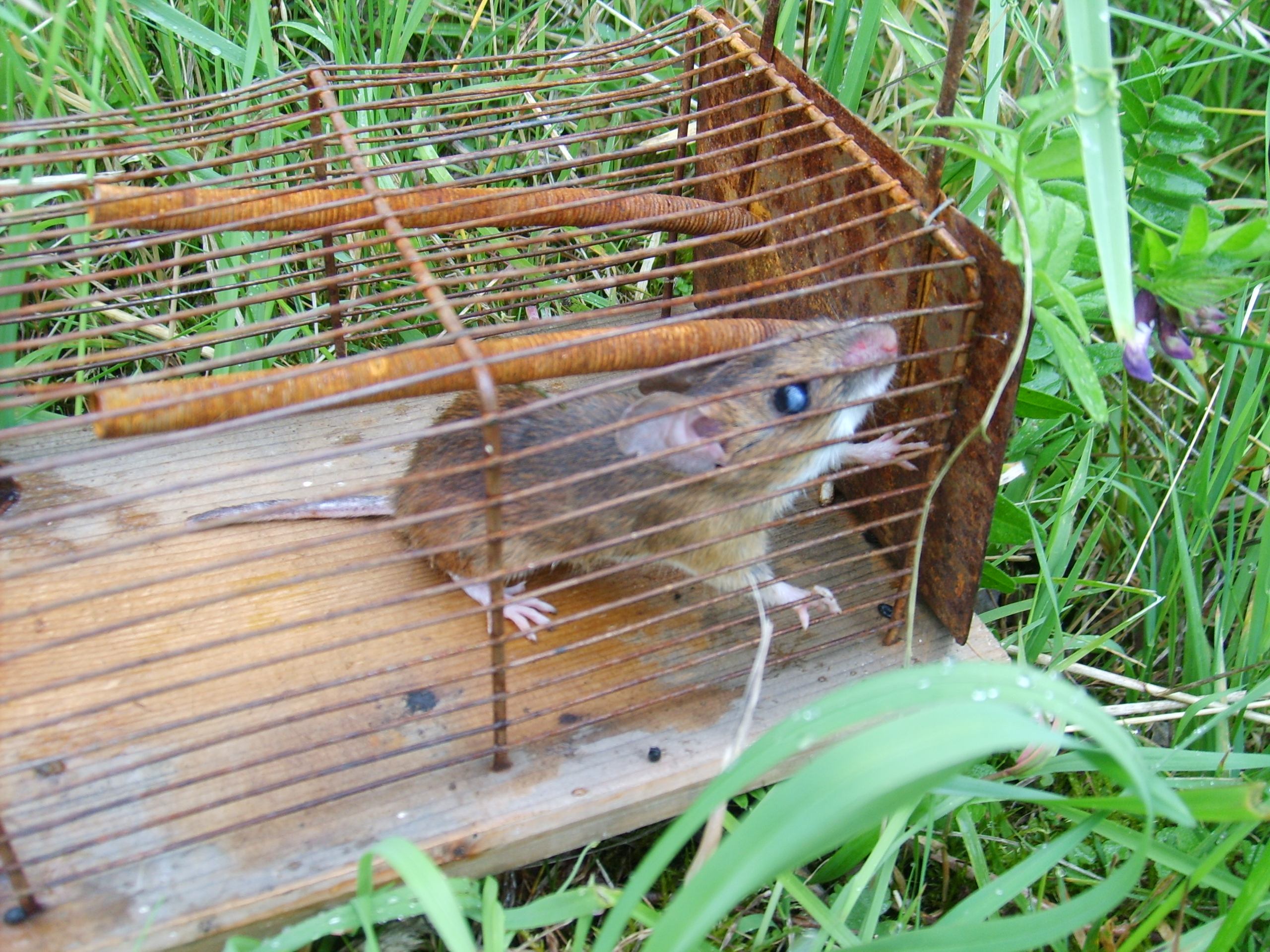 Apodemus flavicollis caught with a rat trap in Interlaken, Switzerland. The bait was a bit of sausage. It seems that the eye of the mouse is blinded an the tail was cut.